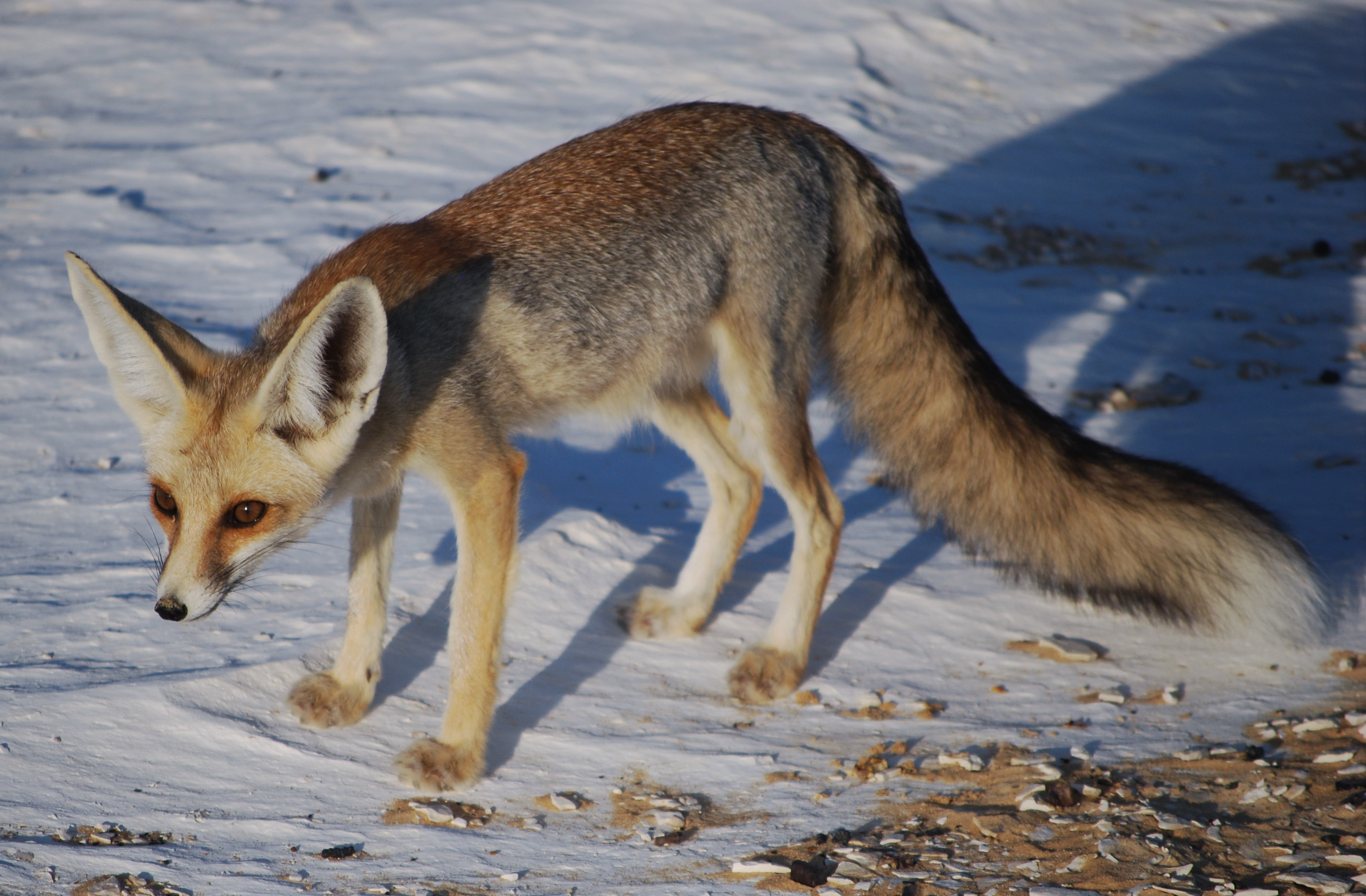 Rüppell's Fox in White Desert, Egypt